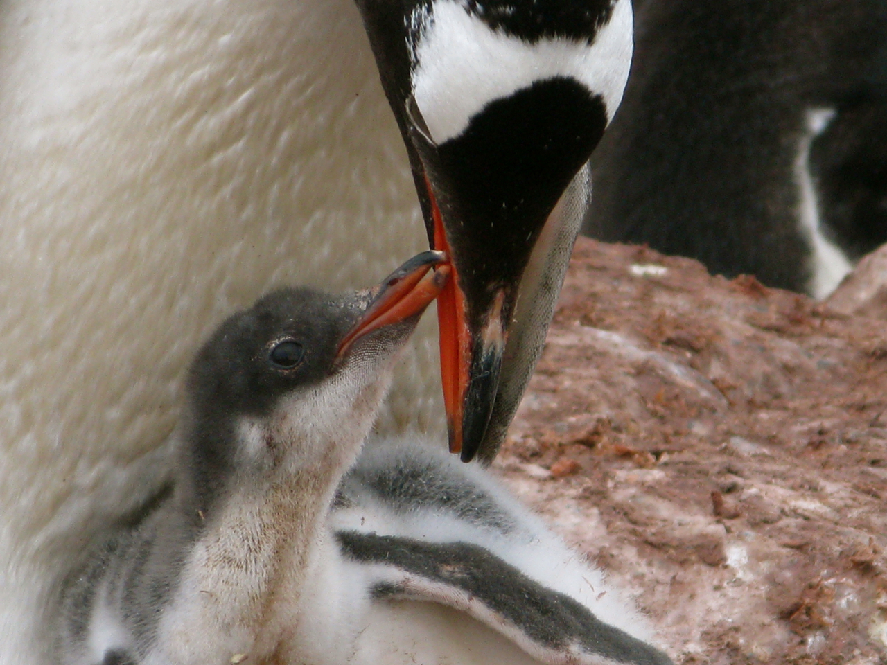 Pygoscelis papua - Antarctic - 2009